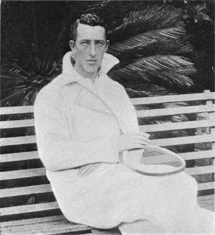 Clement Cazalet, English tennis player (1869-1950)